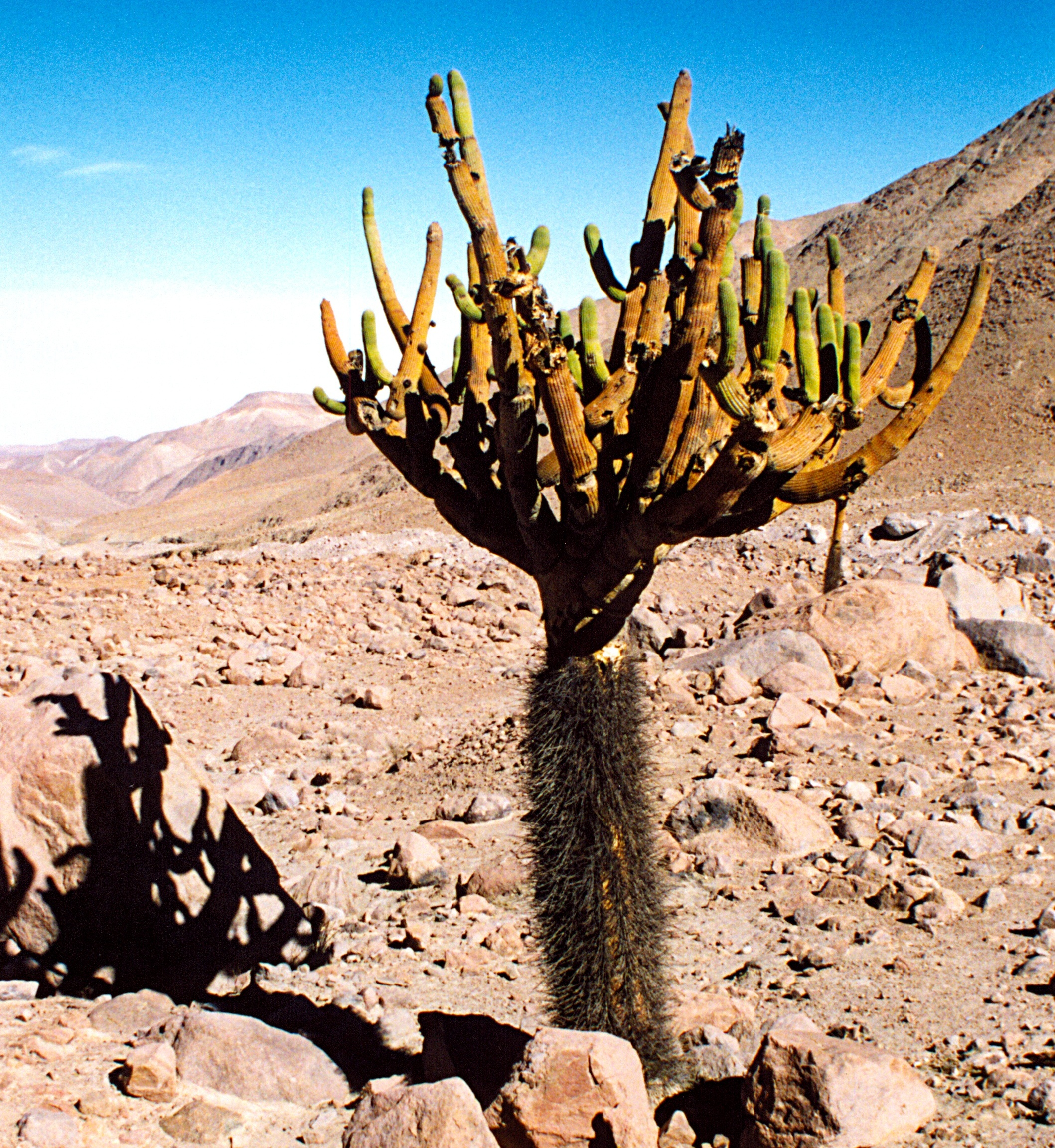 "Candelabro" (Browningia candelaris); cactus grows alone for many years in this desertic region of Chile. This giant cactus grows only 5-7mm per year.